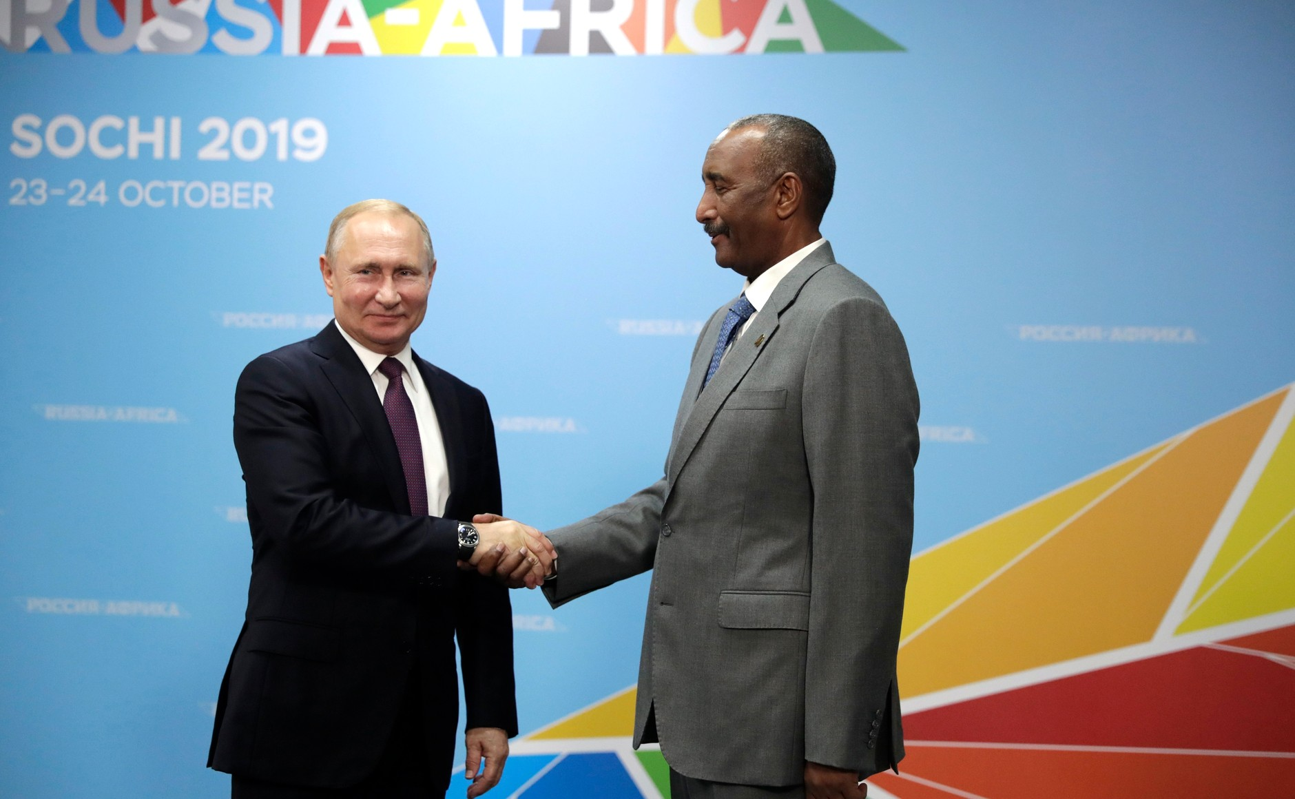 Meeting with Chairman of the Sovereignty Council of Sudan Abdel Fattah Abdelrahman Burhan.